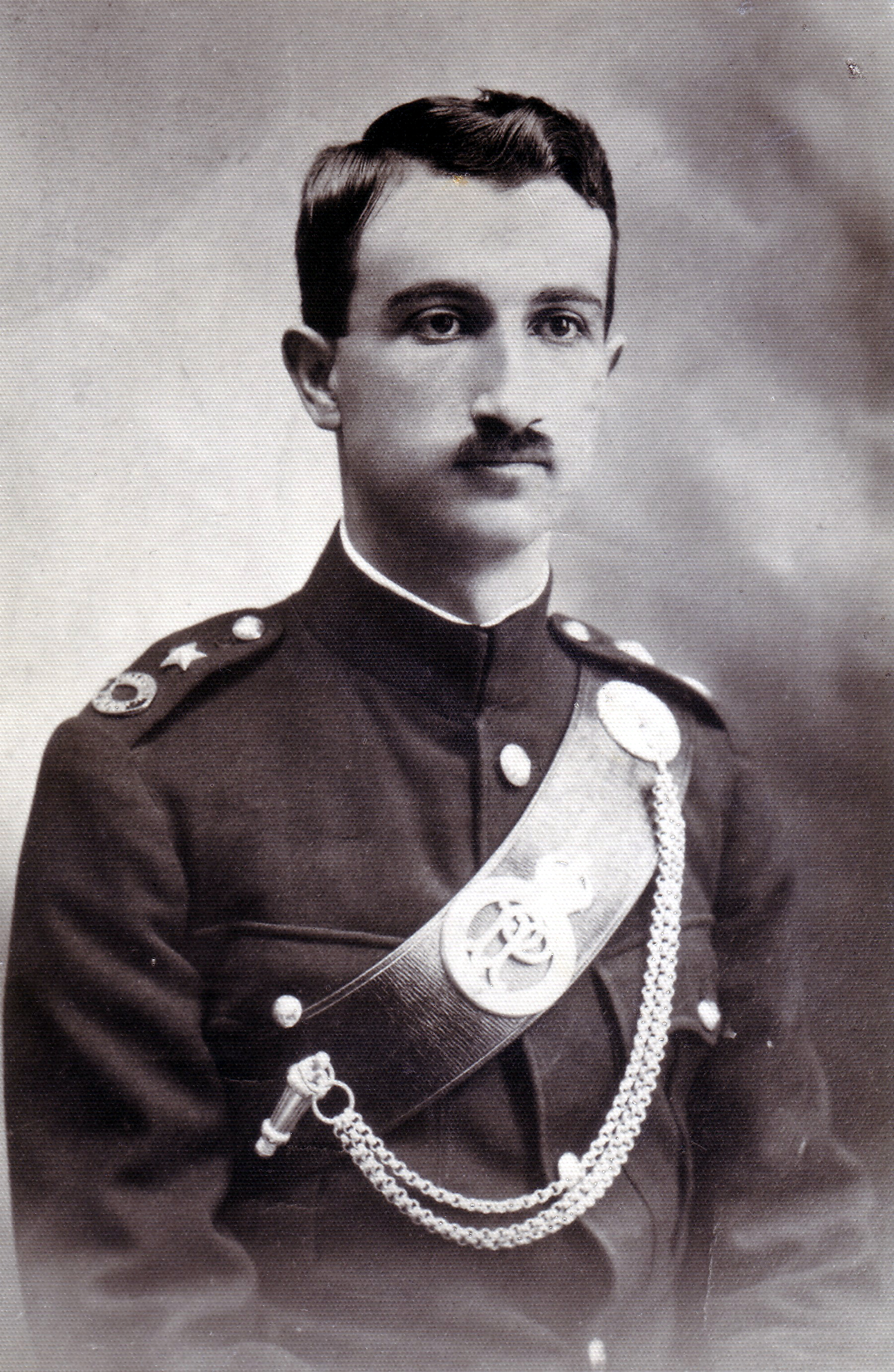 Omar Elwary in 1927 during his service in the Jerusalem Police under the British Mandate